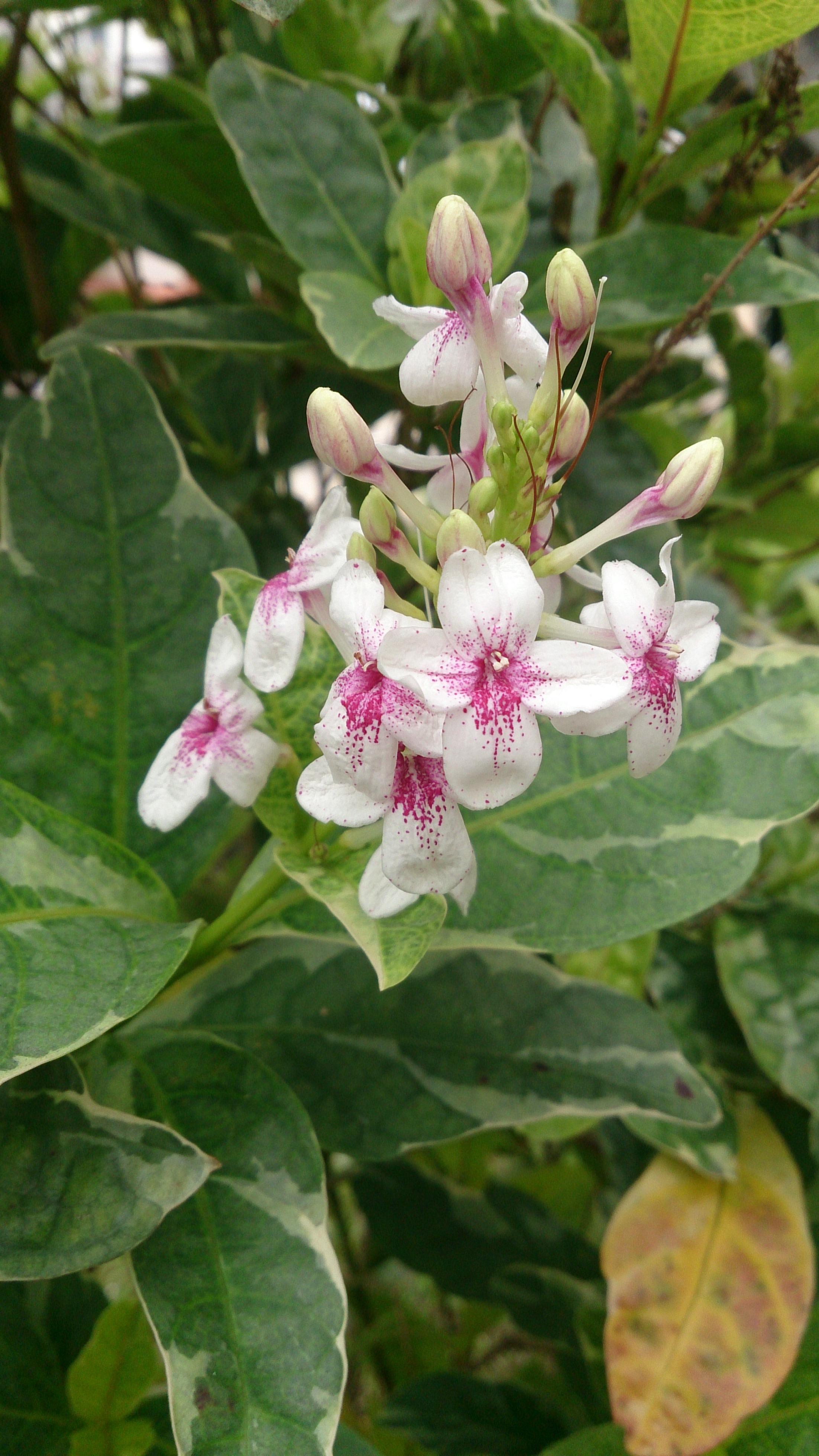 Pseuderanthemum carruthersii